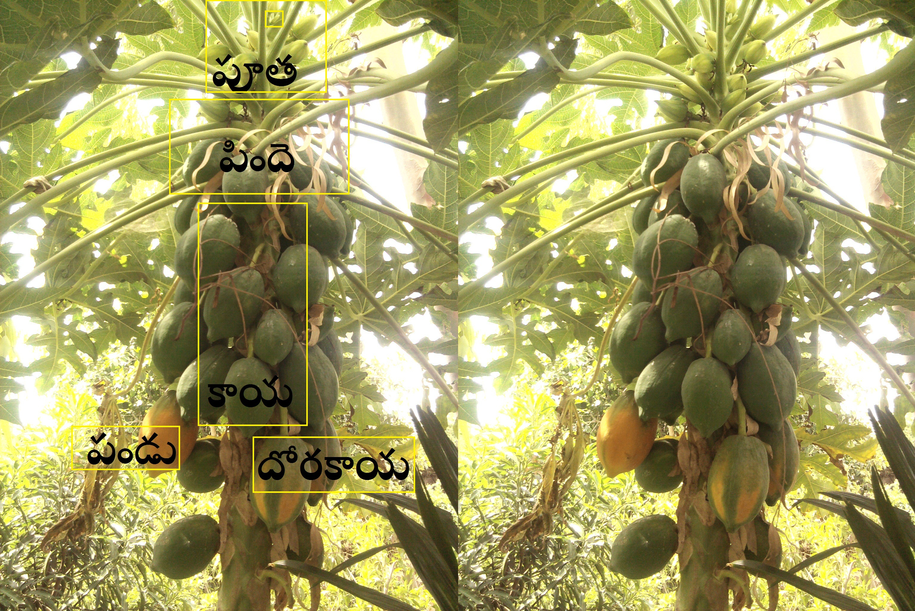 Papaya tree - Stages of Fruit